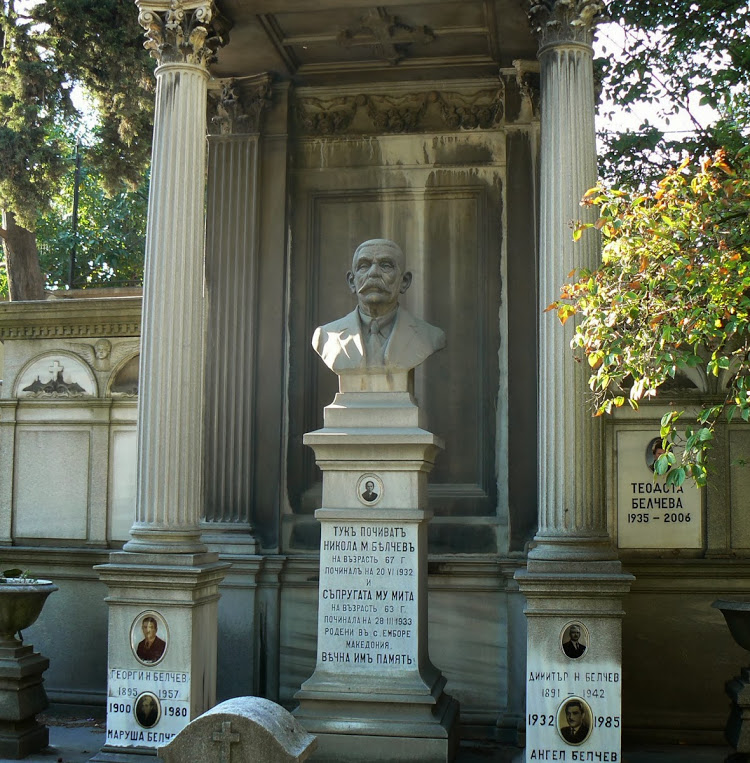 Bulgarian Orthodox Cemetery in Istanbul